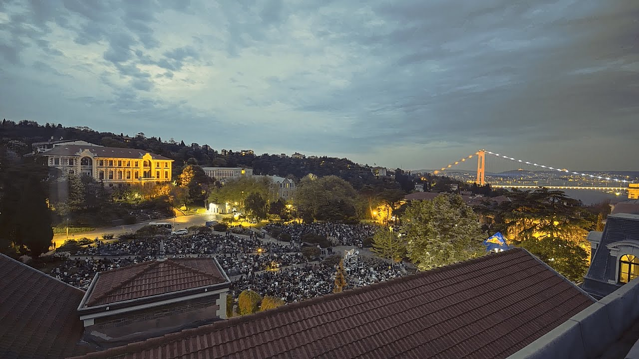 Tasoda Festivali